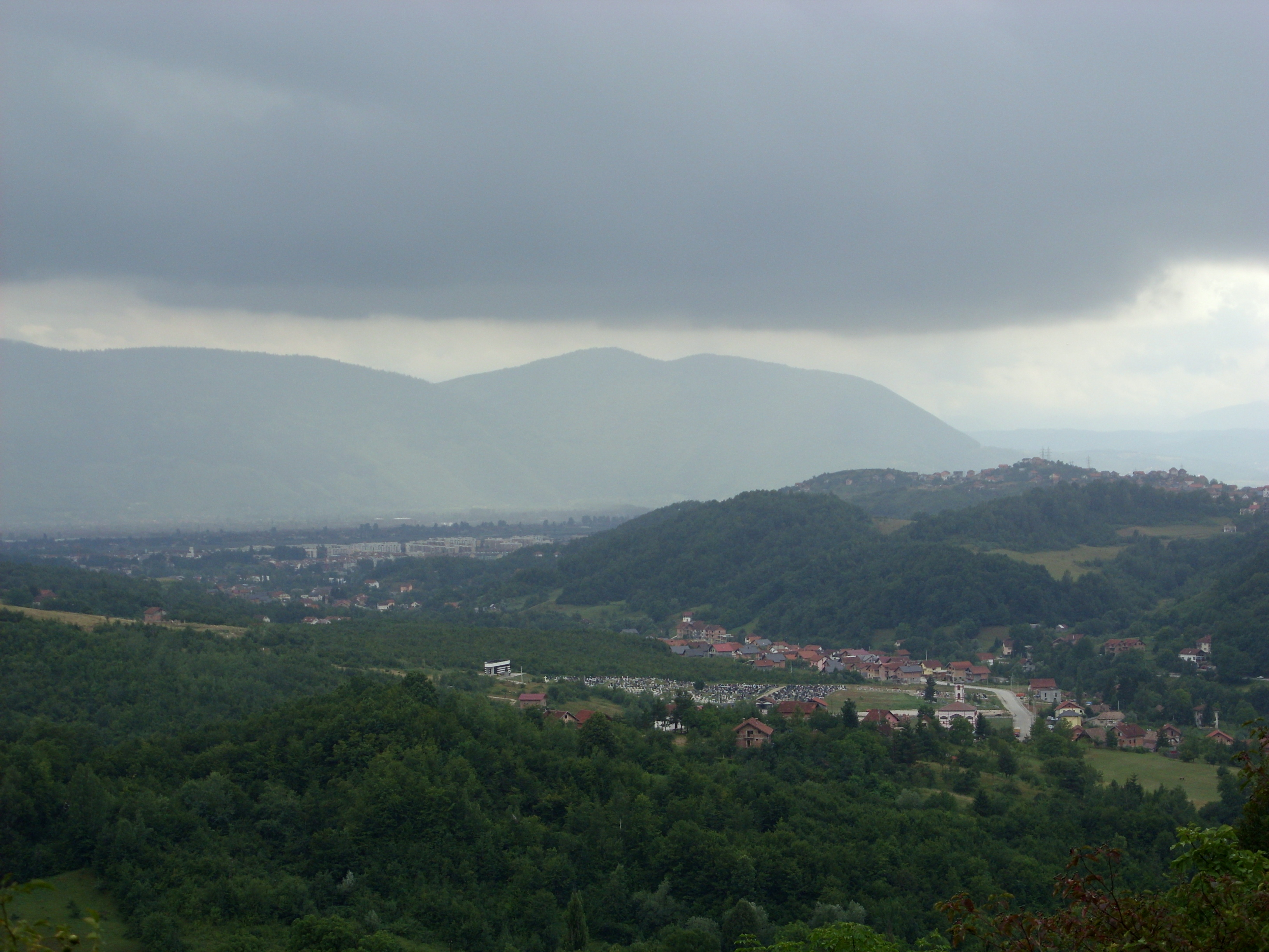 Bjelašnica Mountain near Sarajevo as seen from the village of Miljevići.